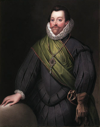 Sir Francis Drake (c. 1540-1596), facing left in pleated grey doublet with standing lace collar and cuffs, gold-bordered green stole draped across his chest, sword at his side, holding a pair of gloves in his left hand and his right hand resting on a sphere, wearing the Drake jewel on a gold chain around his neck